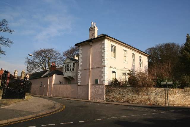 Hilton House. On the opposite corner of Union Road and Carline Road to the statue of Dr.Charlesworth 105002, the early 19th century Hilton House was the Lincoln home of celebrated artist Peter de Wint (1784-1849).